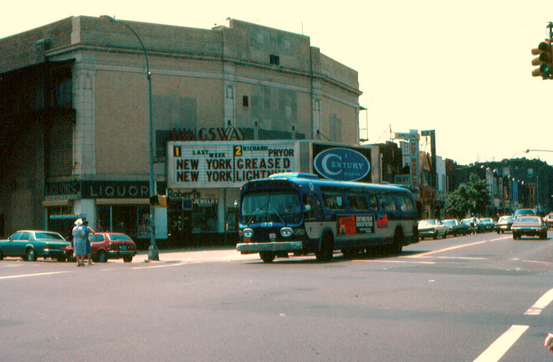 Looking southwest across Coney Island Avenue at Kingsway Theatre, 946 Kings Highway